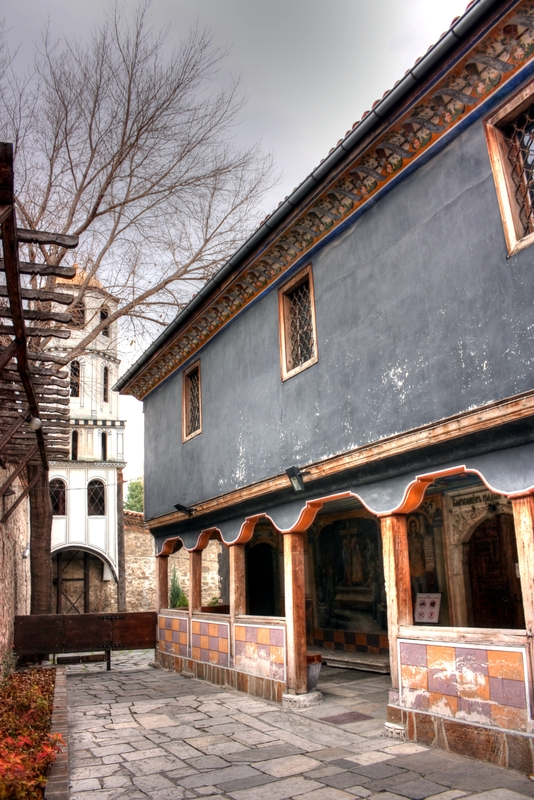 The church of SS. Konstantine and Helen at Plovdiv, Bulgaria... The church of the Saints Constantine and Helen, Plovdiv...